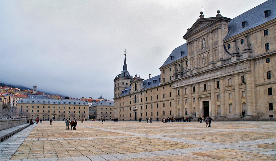 Monasterio de El Escorial, patio delantero.